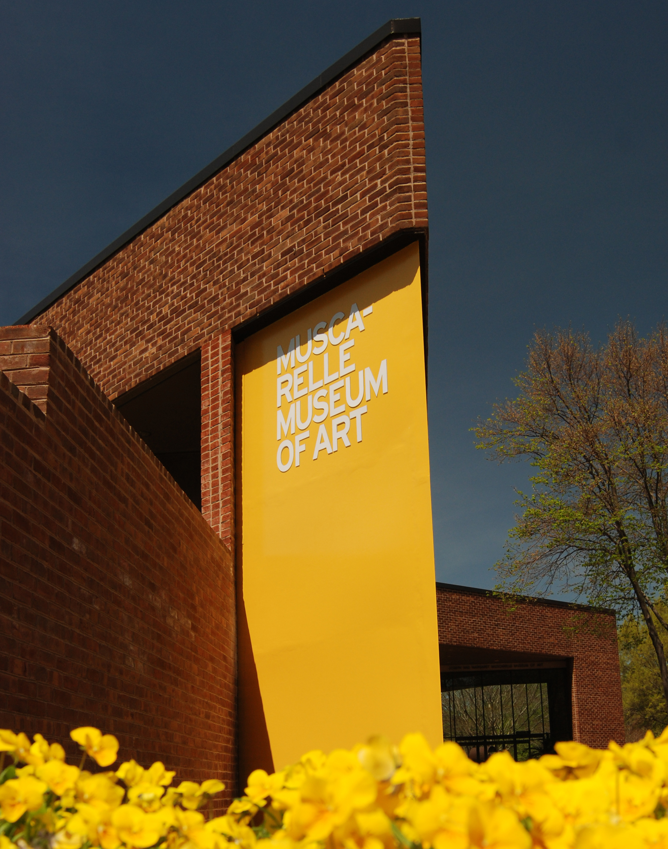 Muscarelle Museum of Art front view